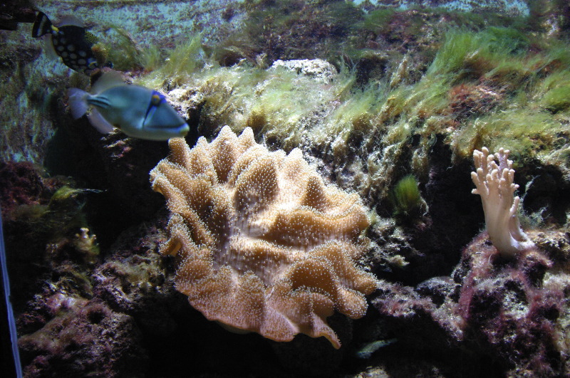 Akvariet (Aquarium), Bergen (Norway).